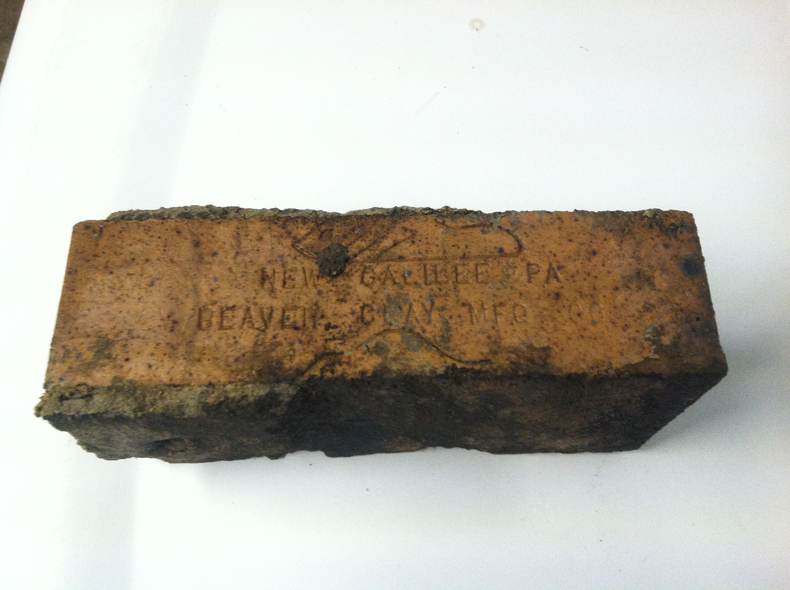 This is an example of buff face brick. These would have been used in the building of homes. Buff refers to the soft yellow color. Note the company's logo of a beaver at the top of the brick. This brick would have been manufactured sometime between 1902 and 1935.